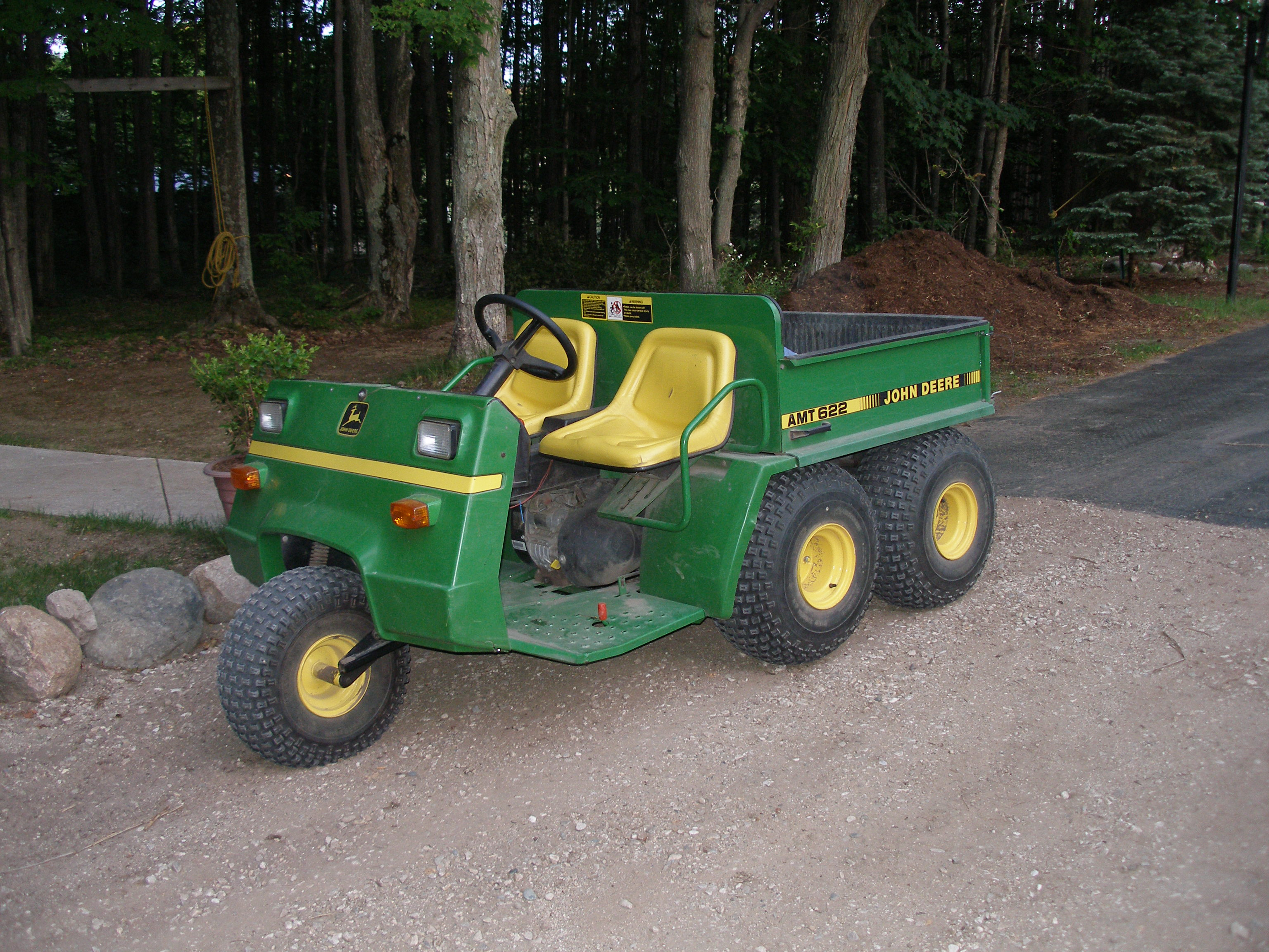 A John Deere AMT 622. Picture taken at a northern Michigan farm in Benzie county on July 9th, 2009.